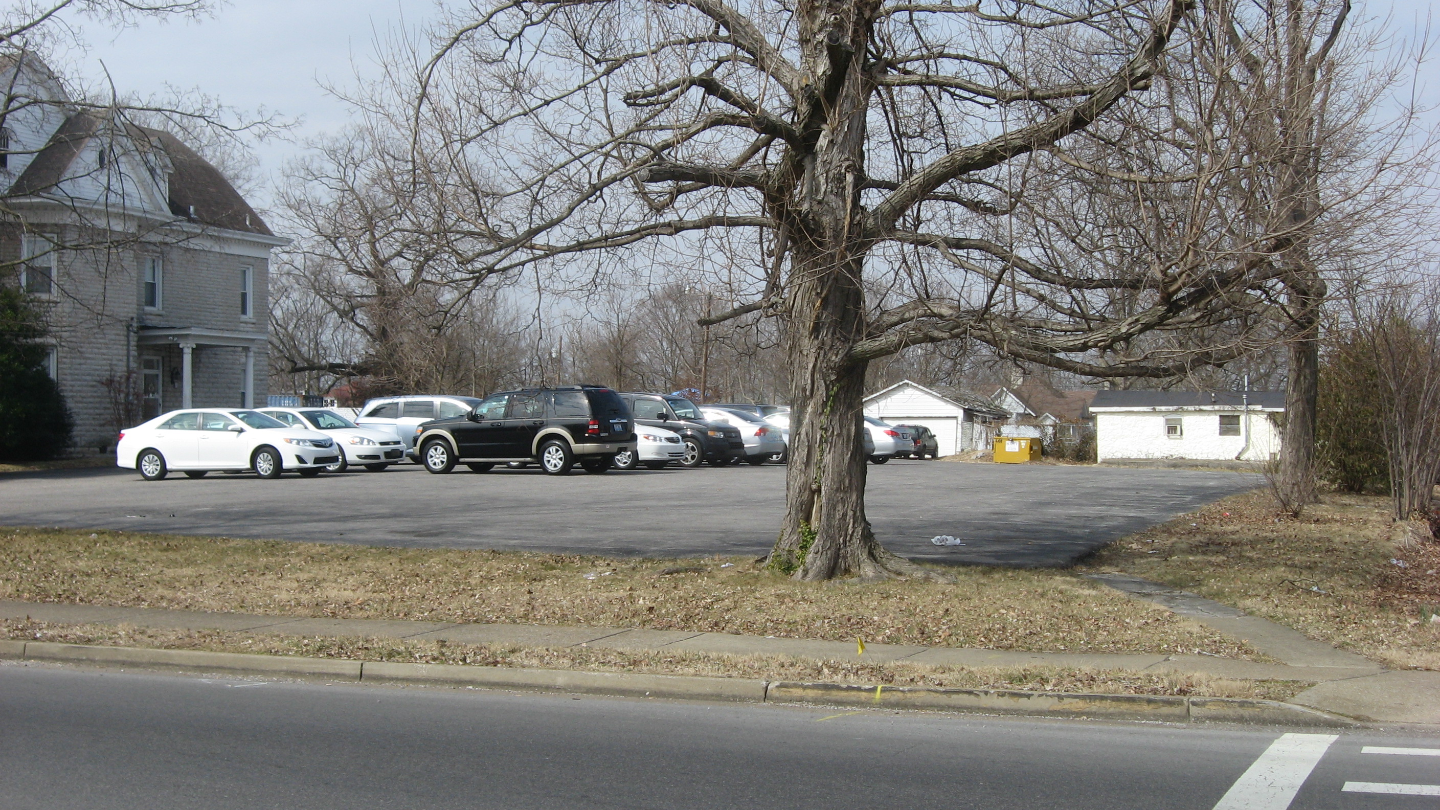 Overview of a parking lot located at 1103 Adams Street in Bowling Green, Kentucky, United States. This was formerly the site of the Hines House, which was listed on the National Register of Historic Places in 1979; it was arsoned in 1995.